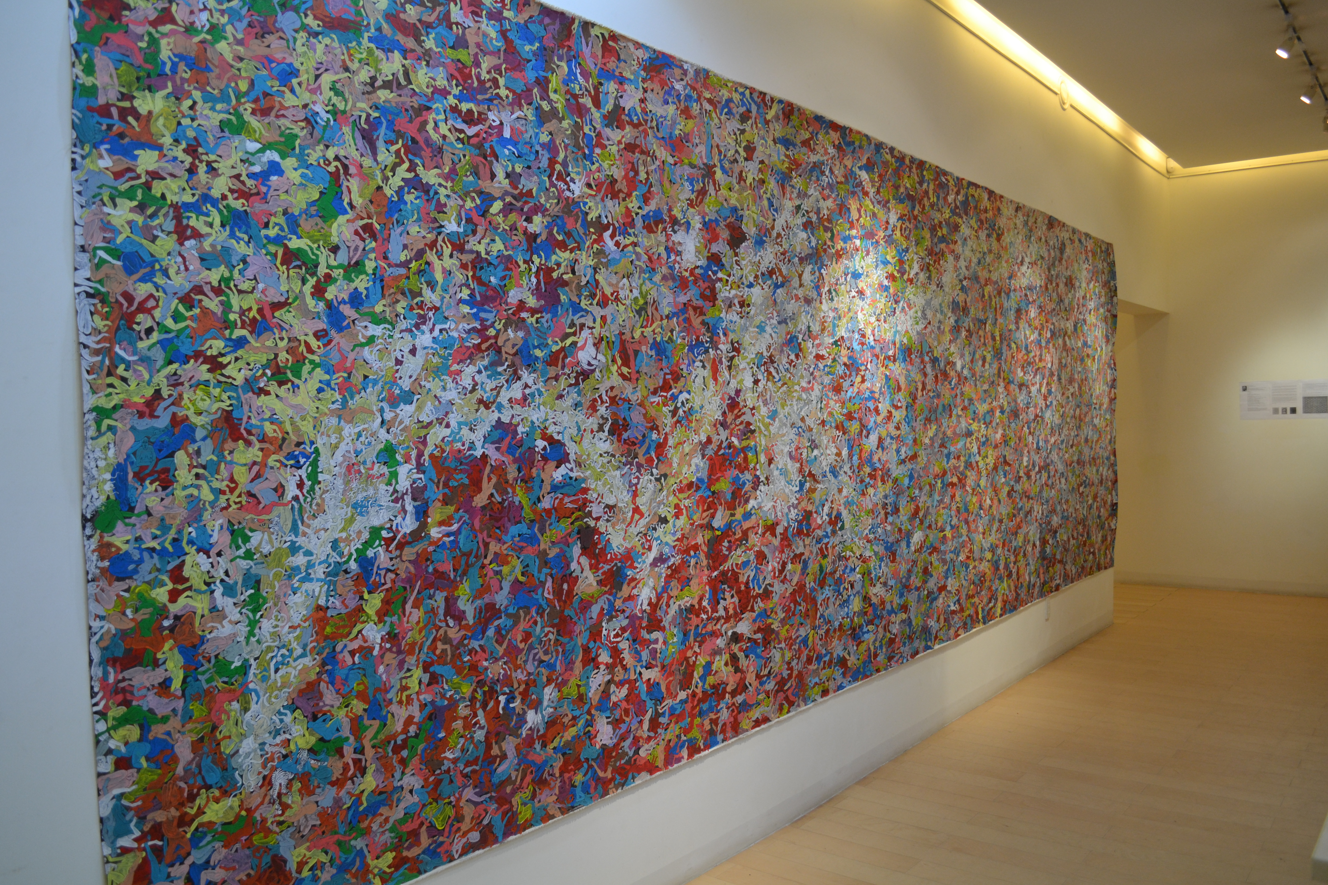 "HUN" painting 660 x 217 cm, acryl on canvas, 2010 - 2012 "OTGO" Otgonbayar Ershuu